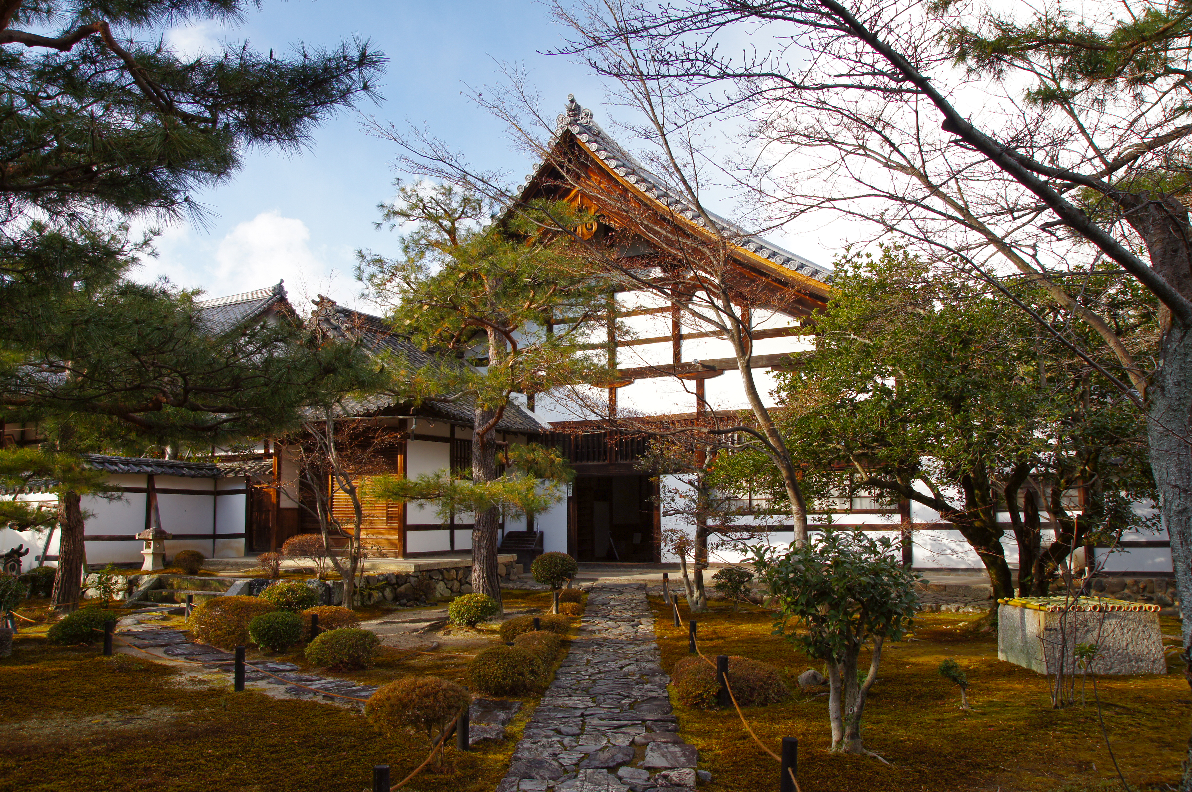 Rokuo-in in Kyoto, Kyoto prefecture, Japan.